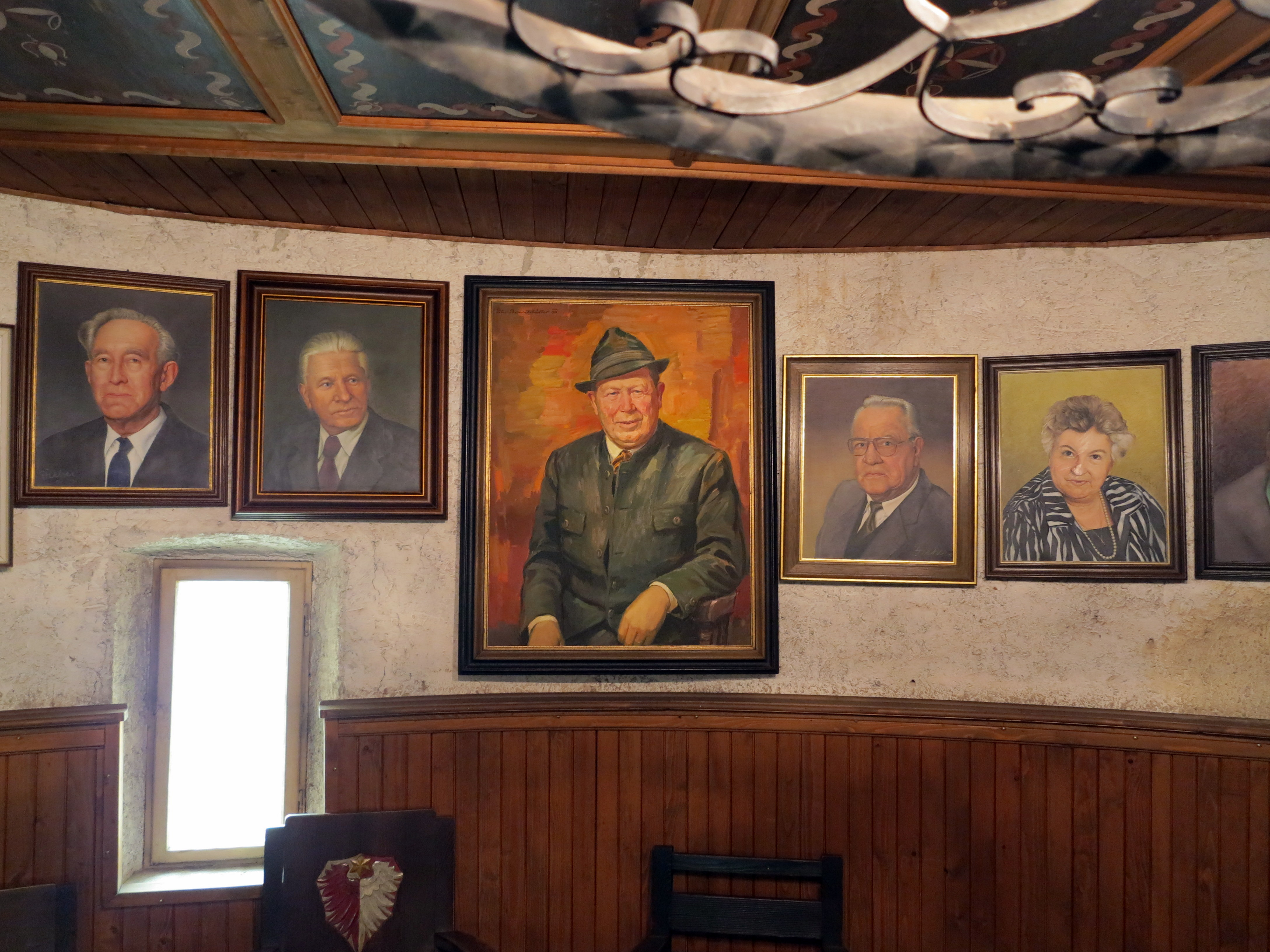 Five paintings by employees who have made ​​valuable contributions to the Museum of Folk Culture in Spittal an der Drau in Carinthia / Austria / EU.